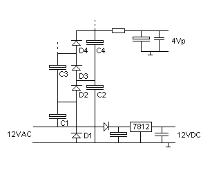 Step-up rectifier